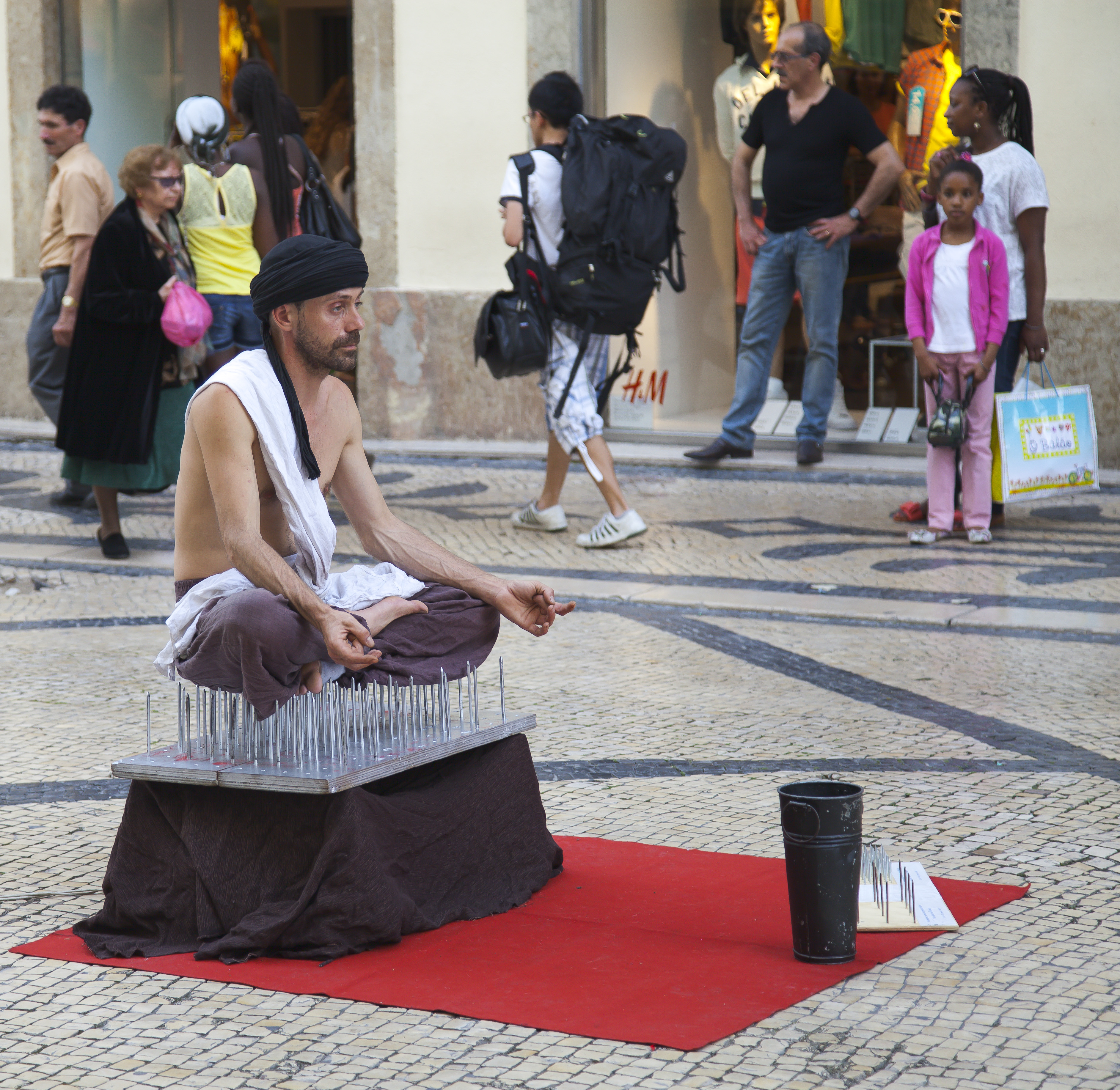 Fakir in Rua Augusta, Lisbon, Portugal